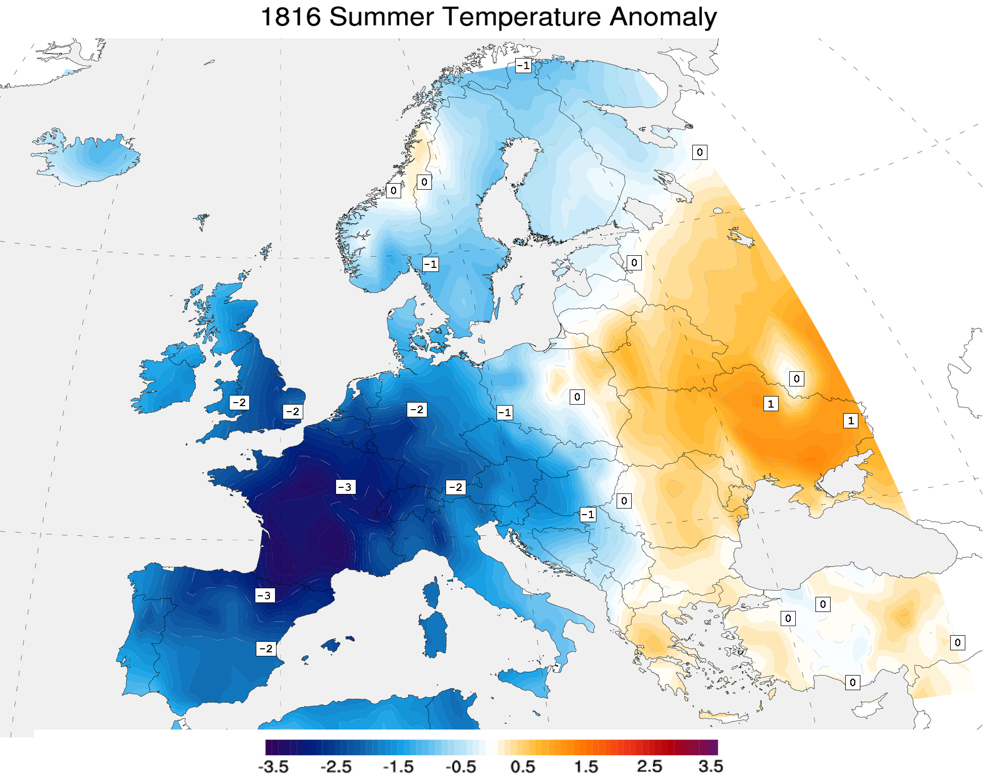 1816 summer temperature anomaly (°C) with respect to 1971-2000 climatology. Data source:ftp://ftp.ncdc.noaa.gov/pub/data/paleo/historical/europe-seasonal-files/ Reference: Luterbacher, J., D. Dietrich, E. Xoplaki, M. Grosjean, and H. Wanner. 2004. European seasonal and annual temperature variability, trends and extremes since 1500. Science, 303, 1499-1503.